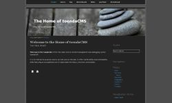 Frontside of Toendacms